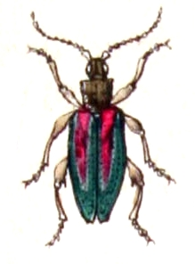 Donacia aquatica, from Calwer's Käferbuch, Table 42, Picture 1. Taxonomy was updated to 2008, using mostly the sites Fauna Europaea and BioLib. Please contact Sarefo if the determination is wrong!